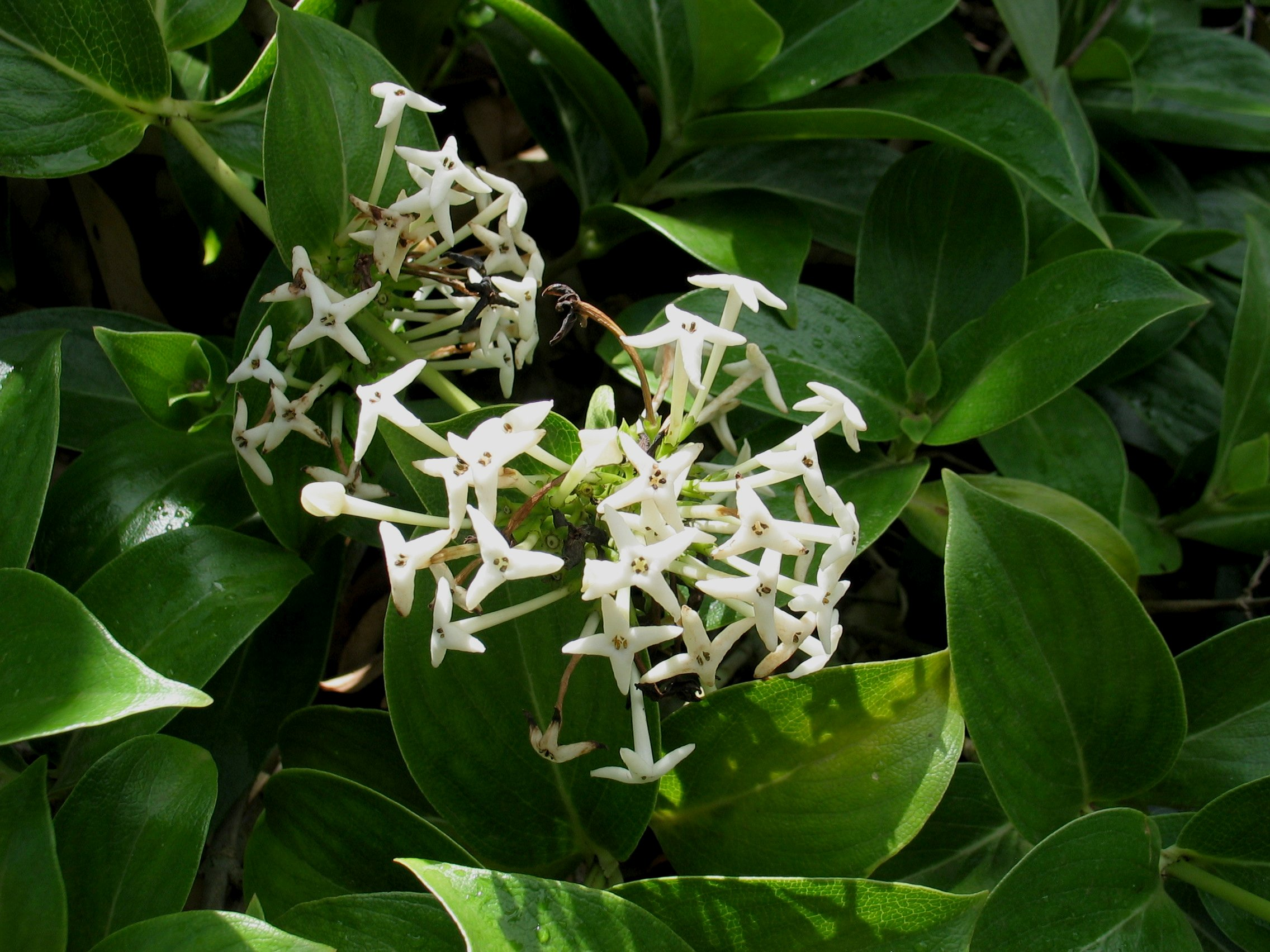 [syn. Hedyotis formosa] Rubiaceae Endemic to the Hawaiian Islands Rare Maui (Cultivated)